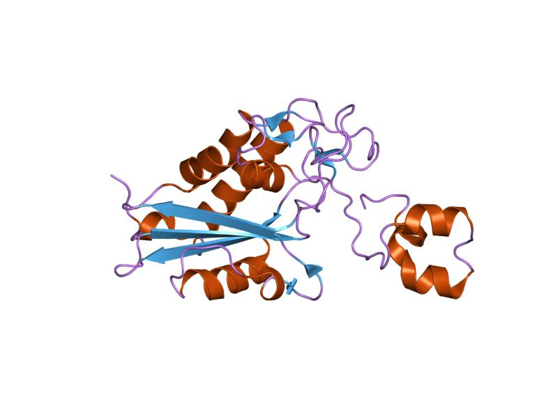 Cartoon representation of the molecular structure of protein registered with 1rc9 code.